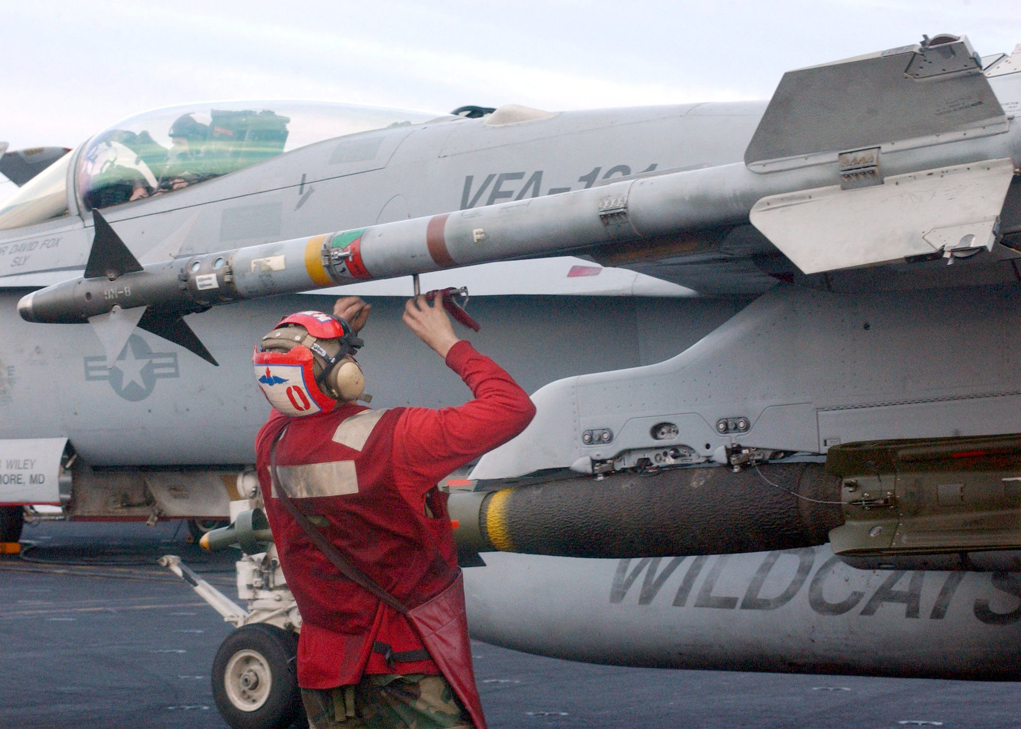 At sea aboard USS John F. Kennedy (CV 67) Mar. 18, 2002 -- An Aviation Ordnanceman disarms an AIM-9 “Sidewinder” missile on an F/A-18 “Hornet” assigned to the "Wildcats" of Strike Fighter Squadron One Three One (VFA-131) upon its return aboard ship. The F/A-18 is assigned to Carrier Air Wing Seven (CVW-7) embarked aboard John F. Kennedy in support of Operation Enduring Freedom. U.S. Navy photo by Photographer's Mate 3rd Class Aren Alseth. (RELEASED)